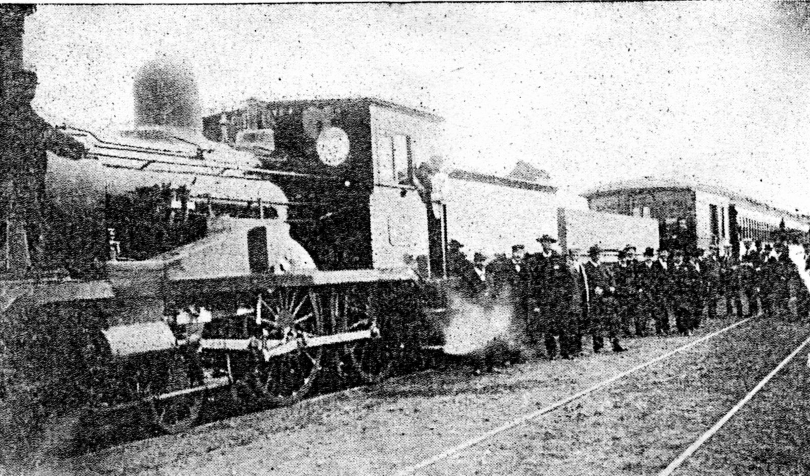 Steam locomotive and train in Rufino station to celebrate the opening of the line to Italó, a city of Roca department in Córdoba Province, Argentina.